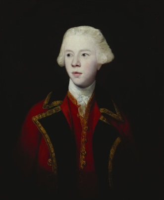 Portrait of George Augustus, 3rd Viscount Howe, Half-Length, Wearing the Uniform of the 1st Guard